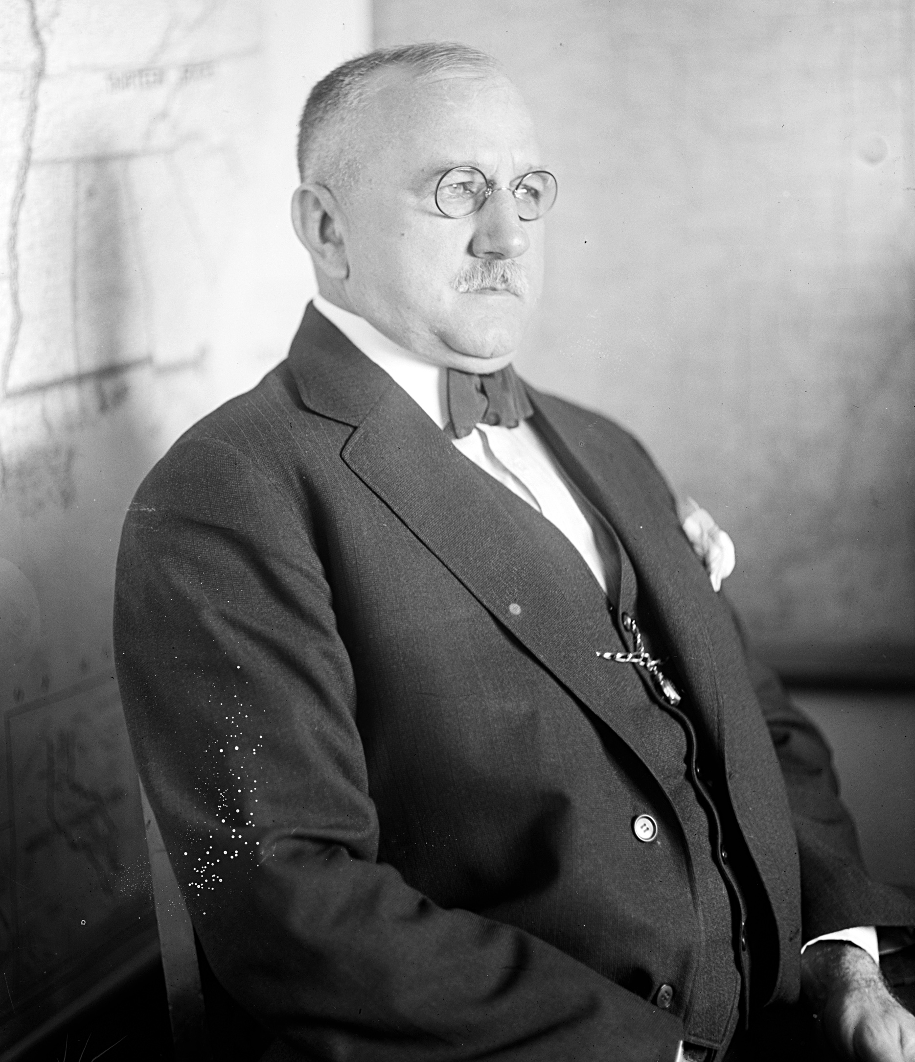 Stanley H. Kunz, US Representative from Illinois